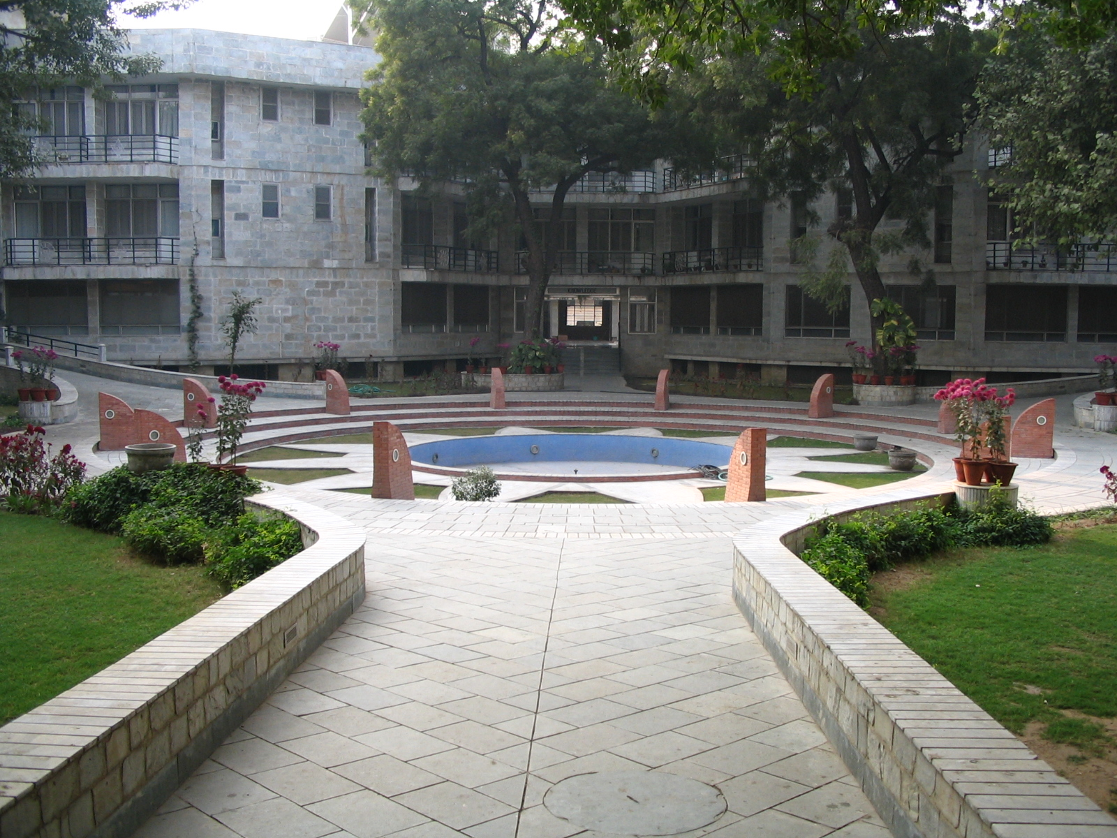 Sri Aurobindo Ashram campus, New Delhi.